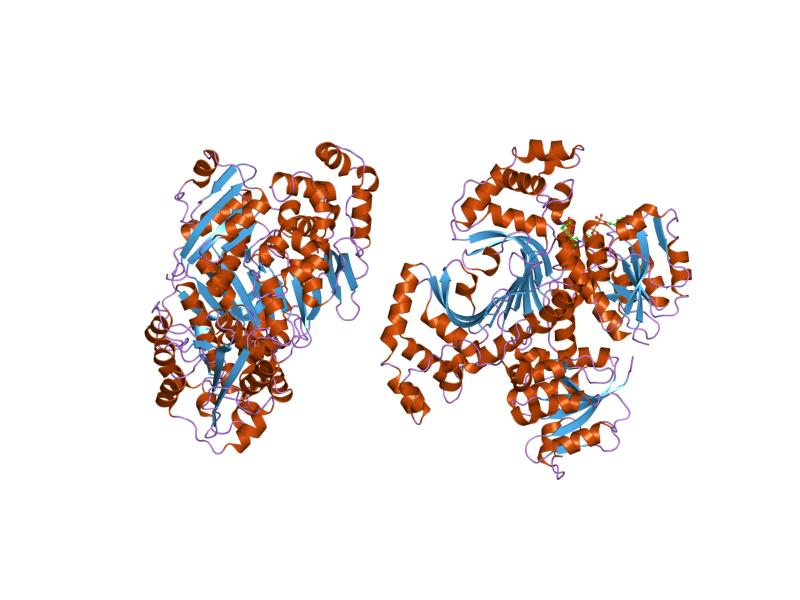 Cartoon representation of the molecular structure of protein registered with 1ebu code.